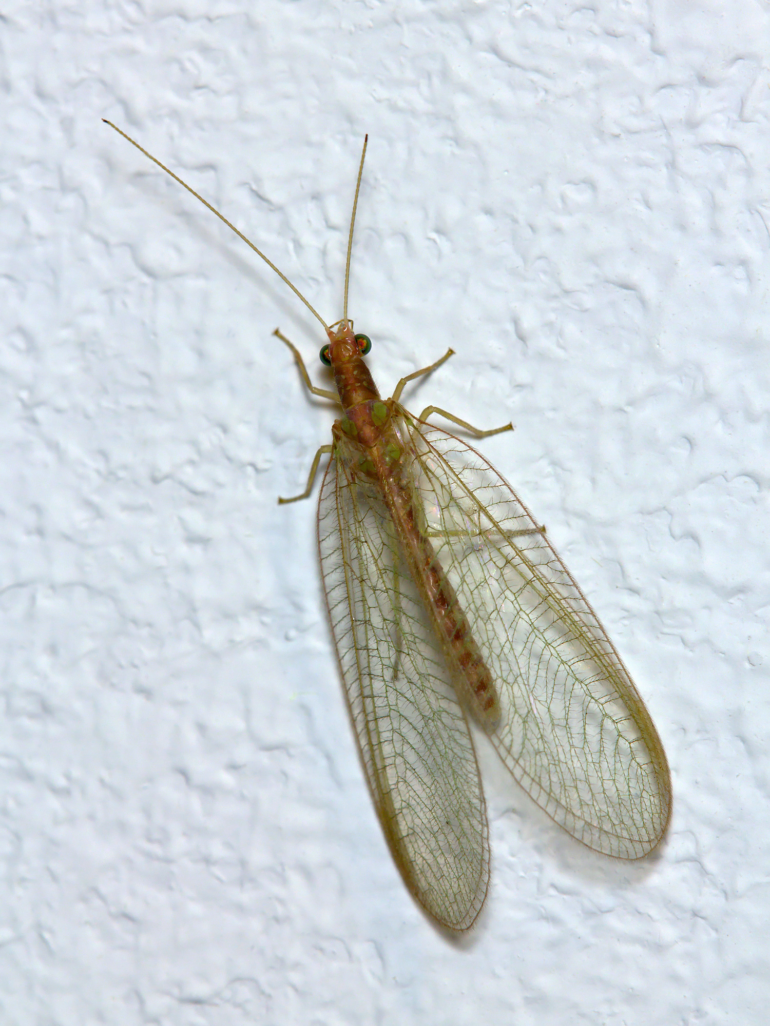 Close-up of a Lacewing, prob. Chrysoperla carnea s.l., sitting on a room wall. This specimen appears to hibernate indoors.